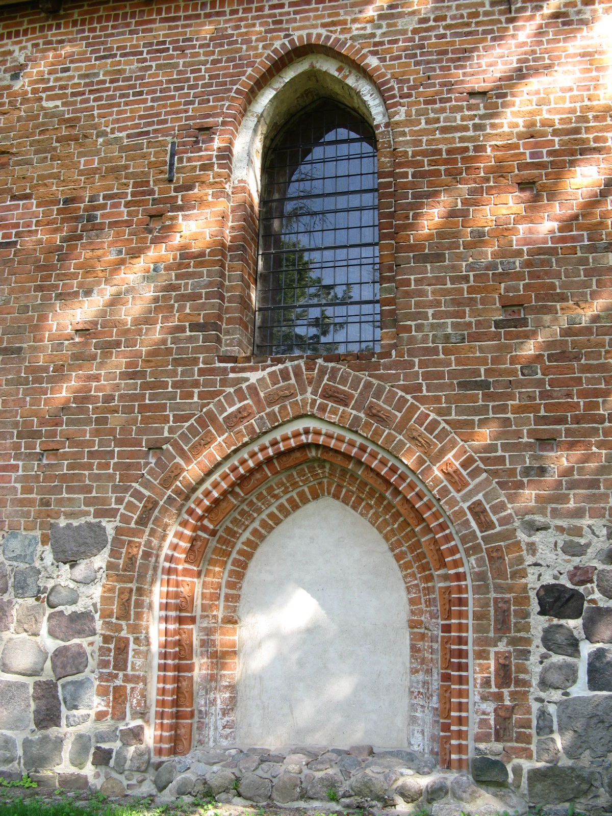 Detail of church in Boitin, disctrict Güstrow, Mecklenburg-Vorpommern, Germany